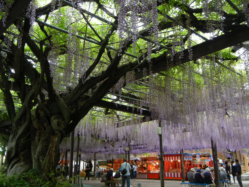 Japanese_wisteria_Yame_Kuroki. 八女市黒木町にある大藤。黒木大藤まつり期間に撮影。, Yame.